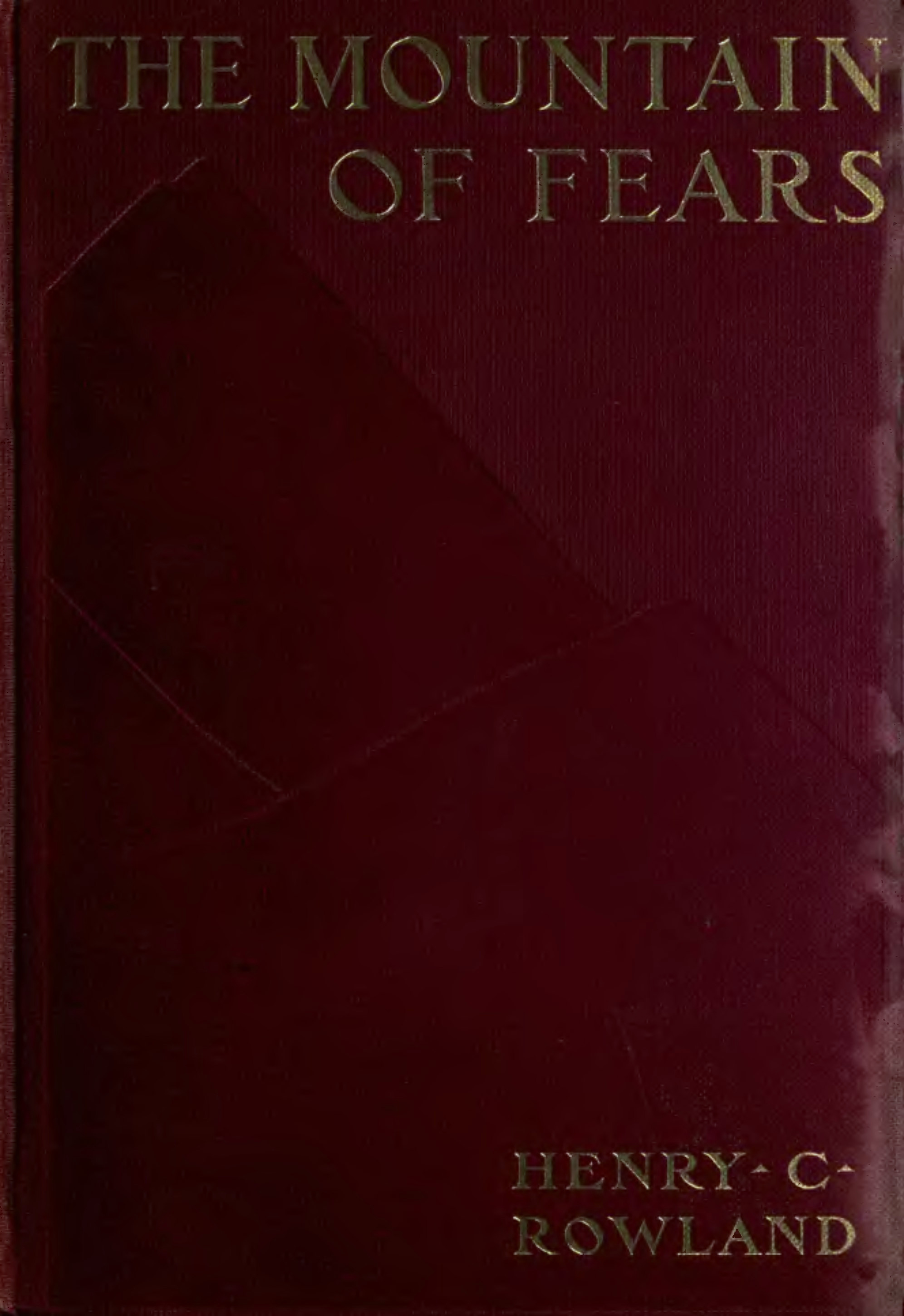 Cover--from scan of book "The Mountain of Fears" (1905) by Harry C. Rowland.